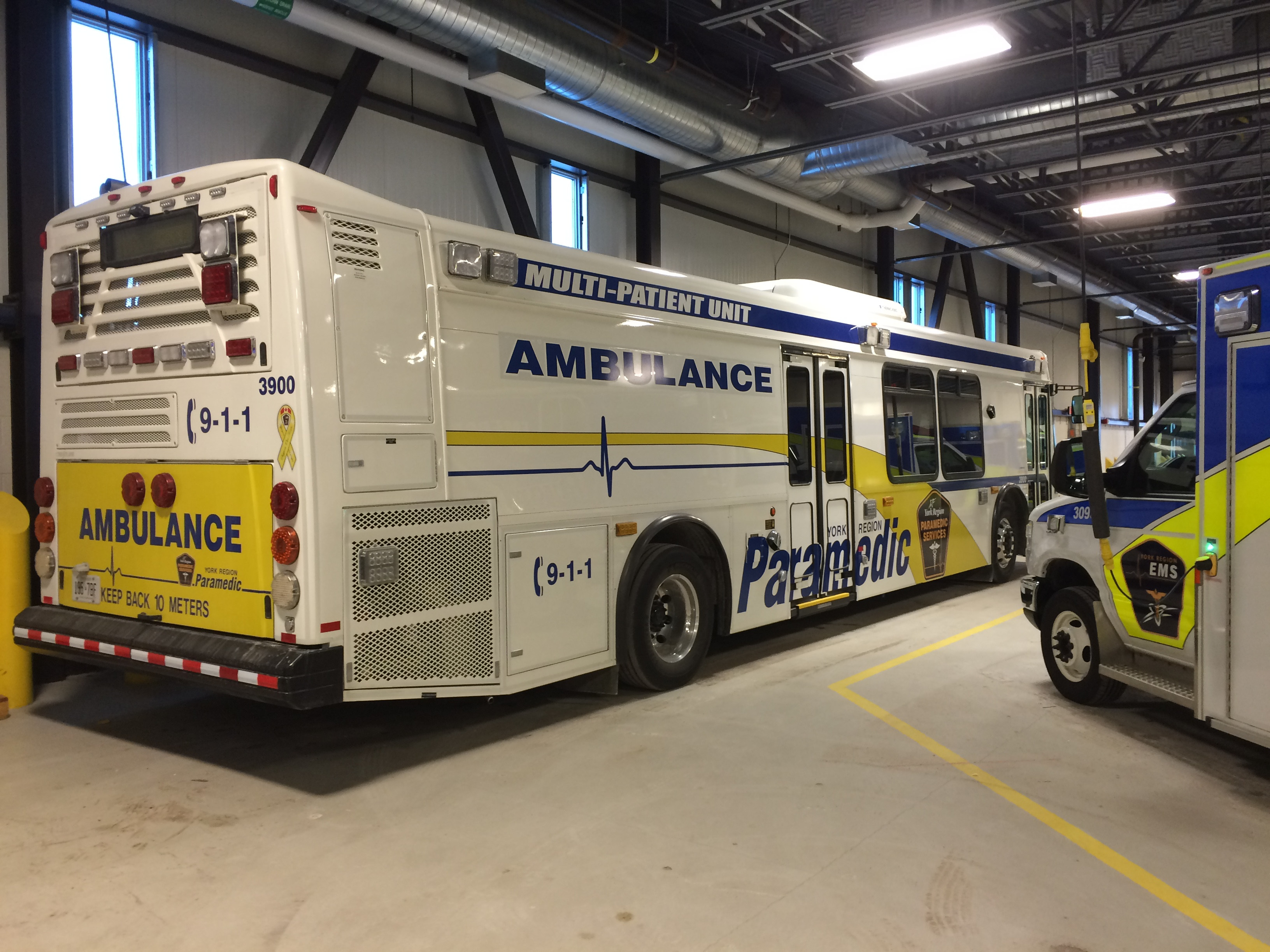 York Region EMS ambulance bus (multi-patient unit)